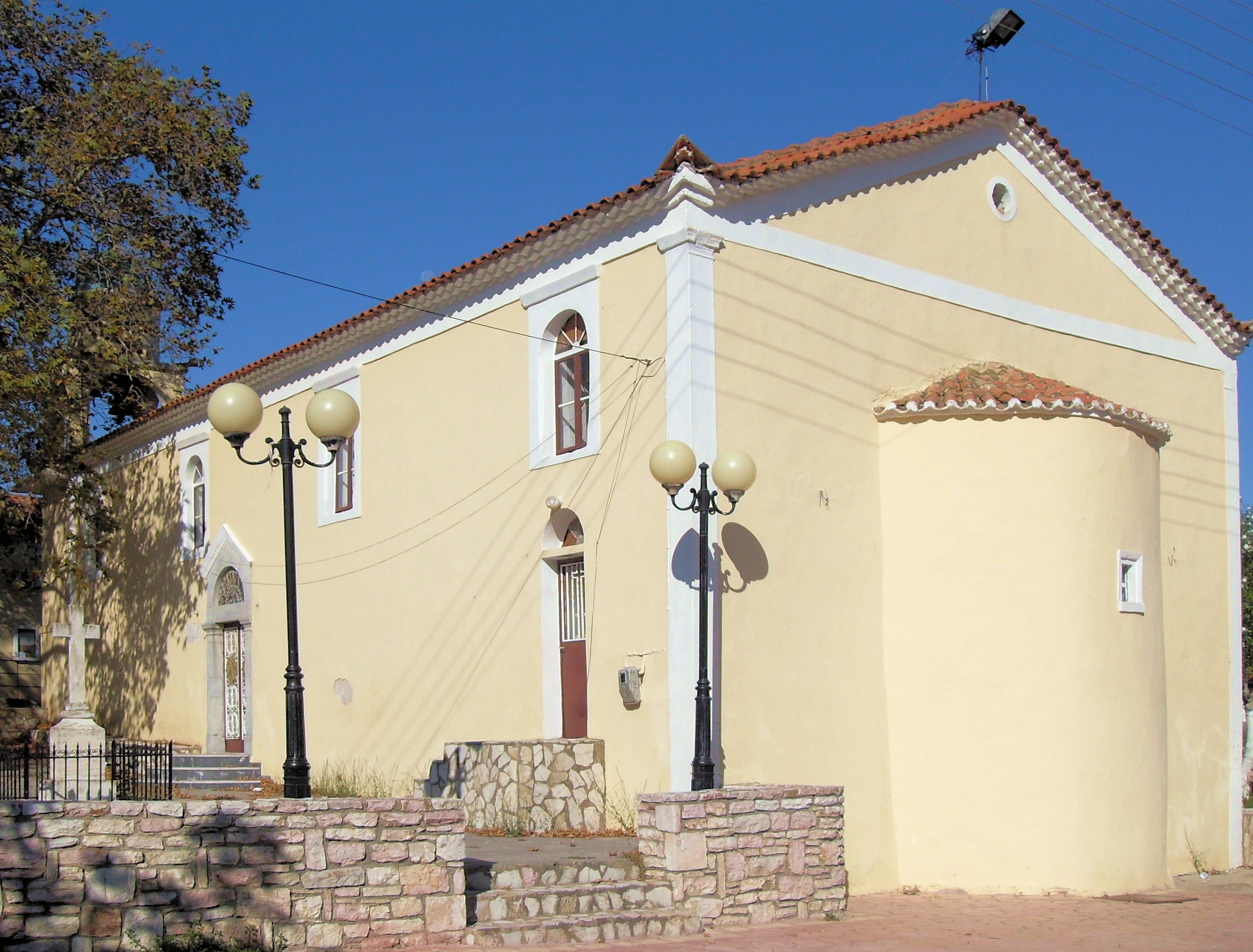 Church in Kaplani, municipality of Koroni, community of Pylos-Nestor